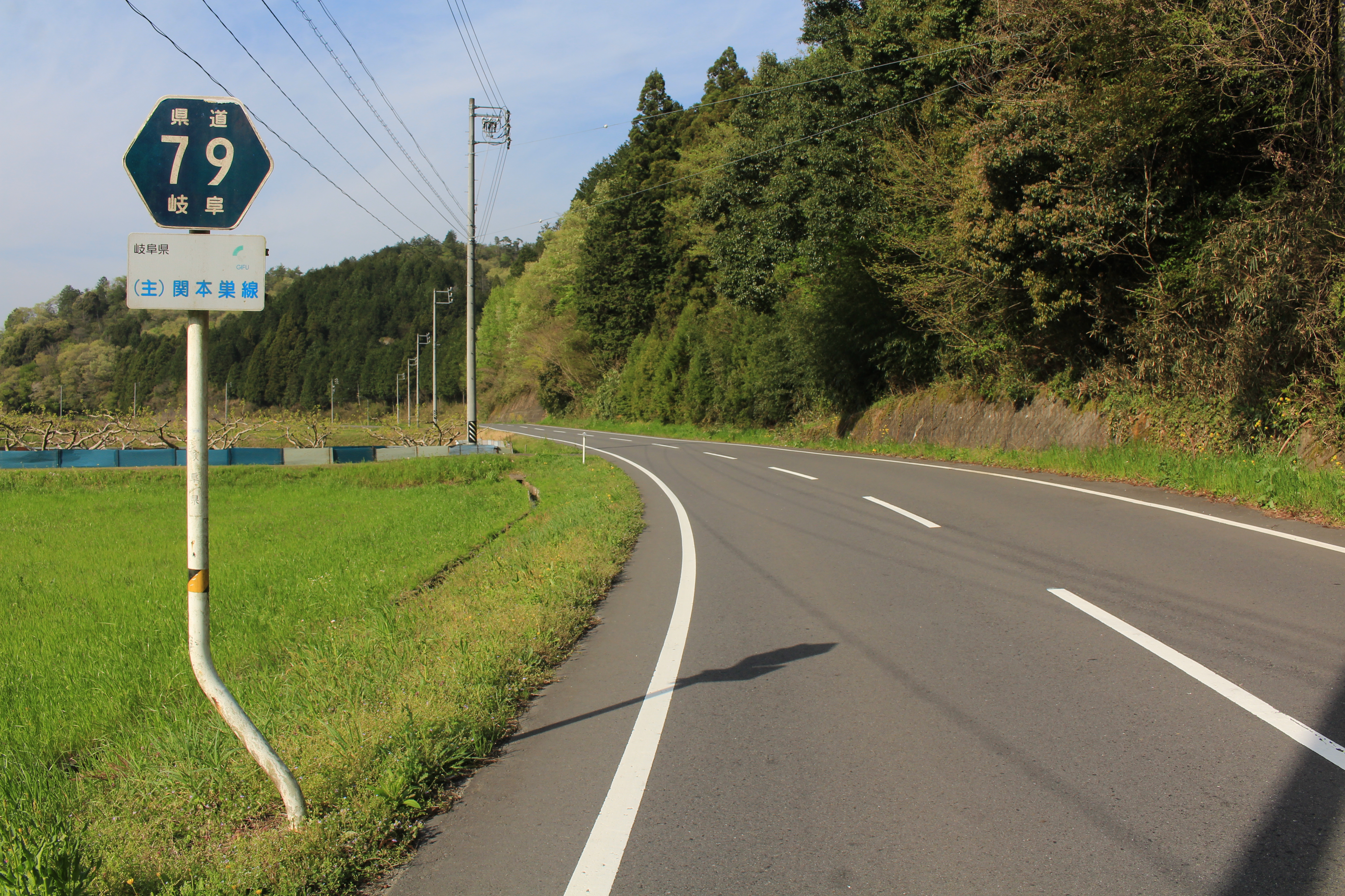 Gifu prefectural road route 79 in Hinakura, Gifu city, Gifu pefecture, Japan.